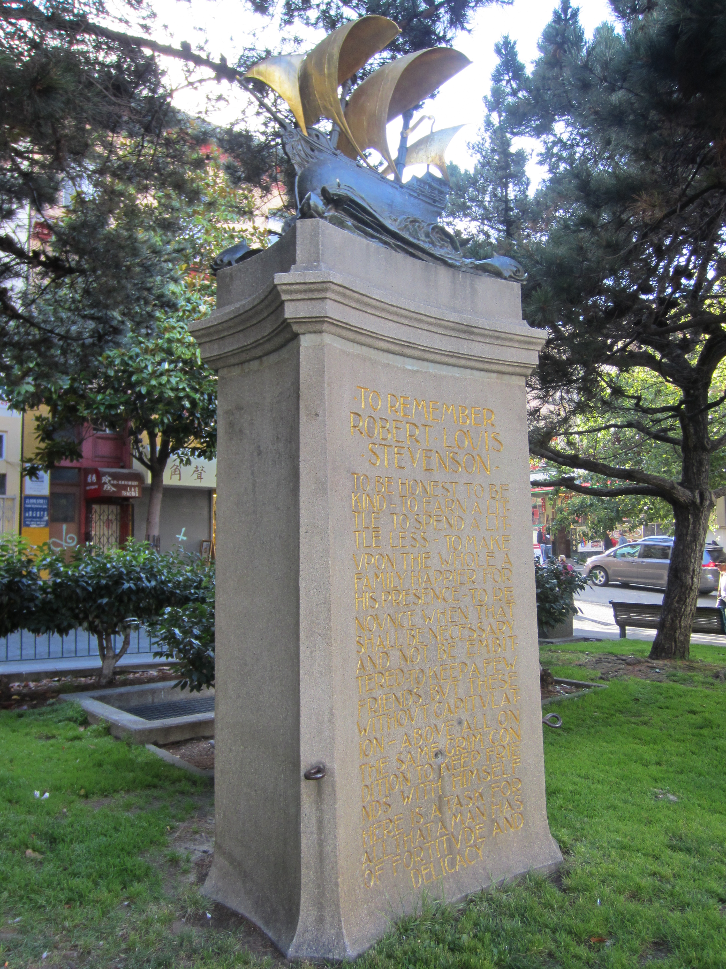 Chinatown, San Francisco, California (2013)